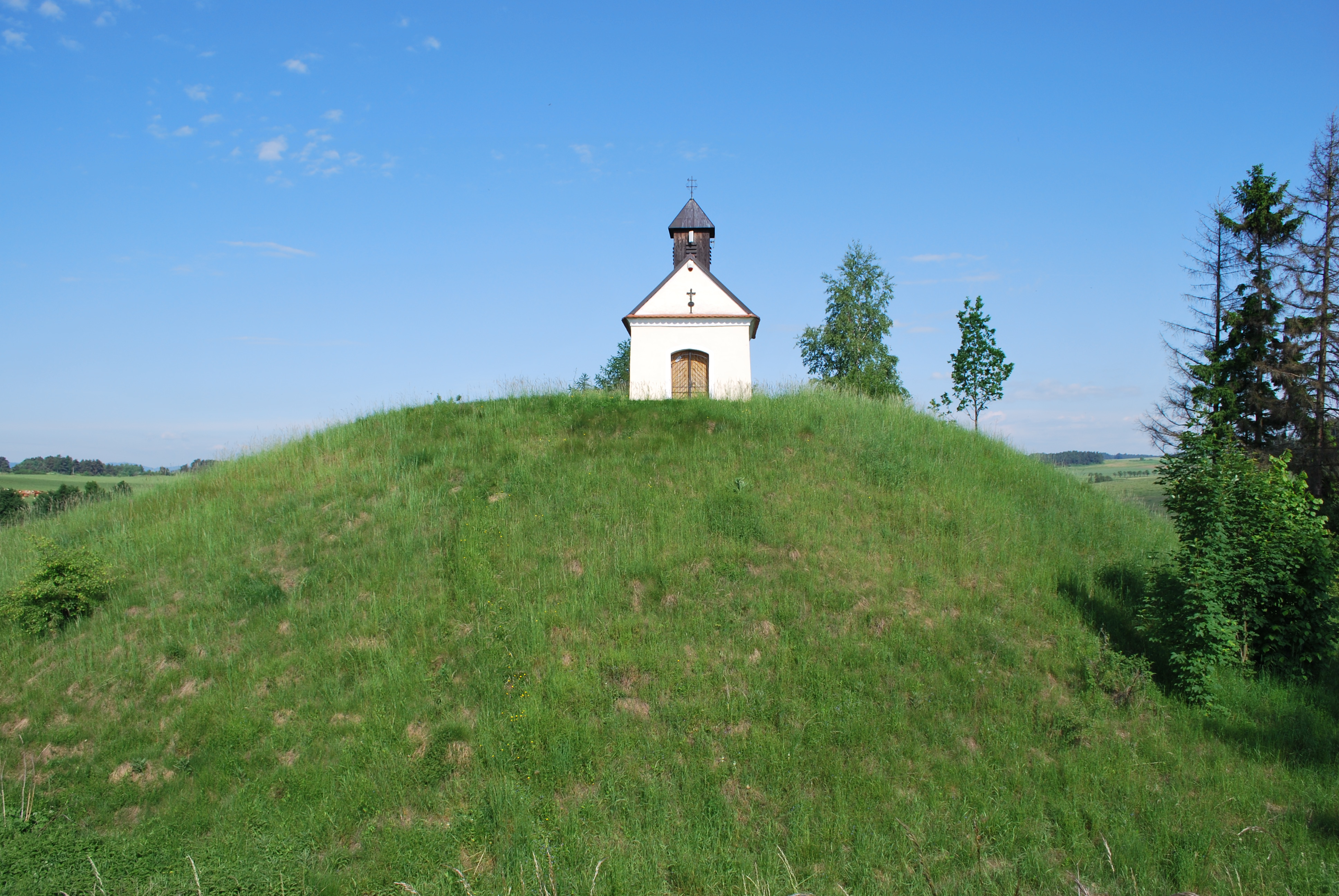 Chapel in Frymburk village in Klatovy District, Czech republic This photograph was taken within the scope of the 'Czech Municipalities Photographs' grant.